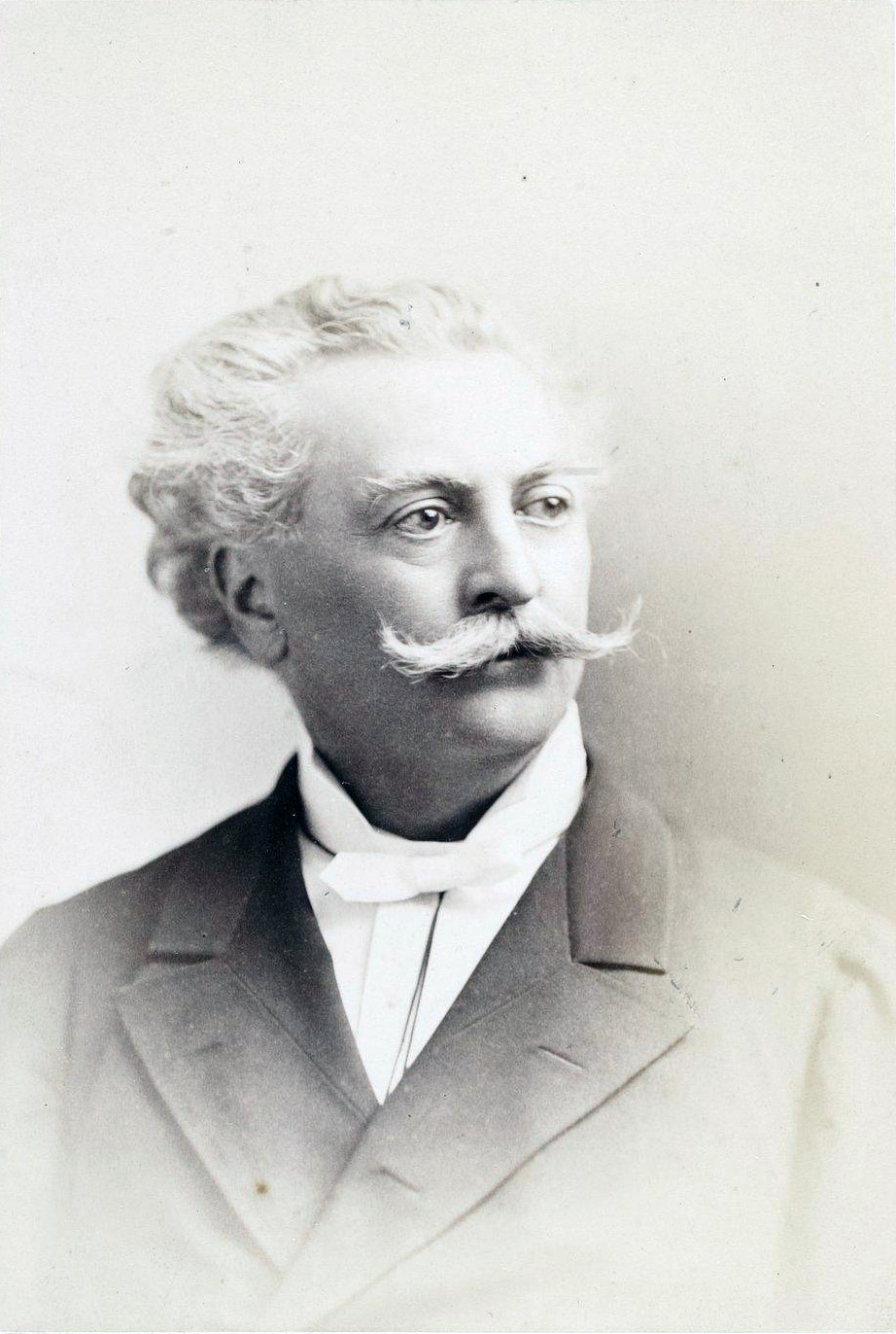 Photograph